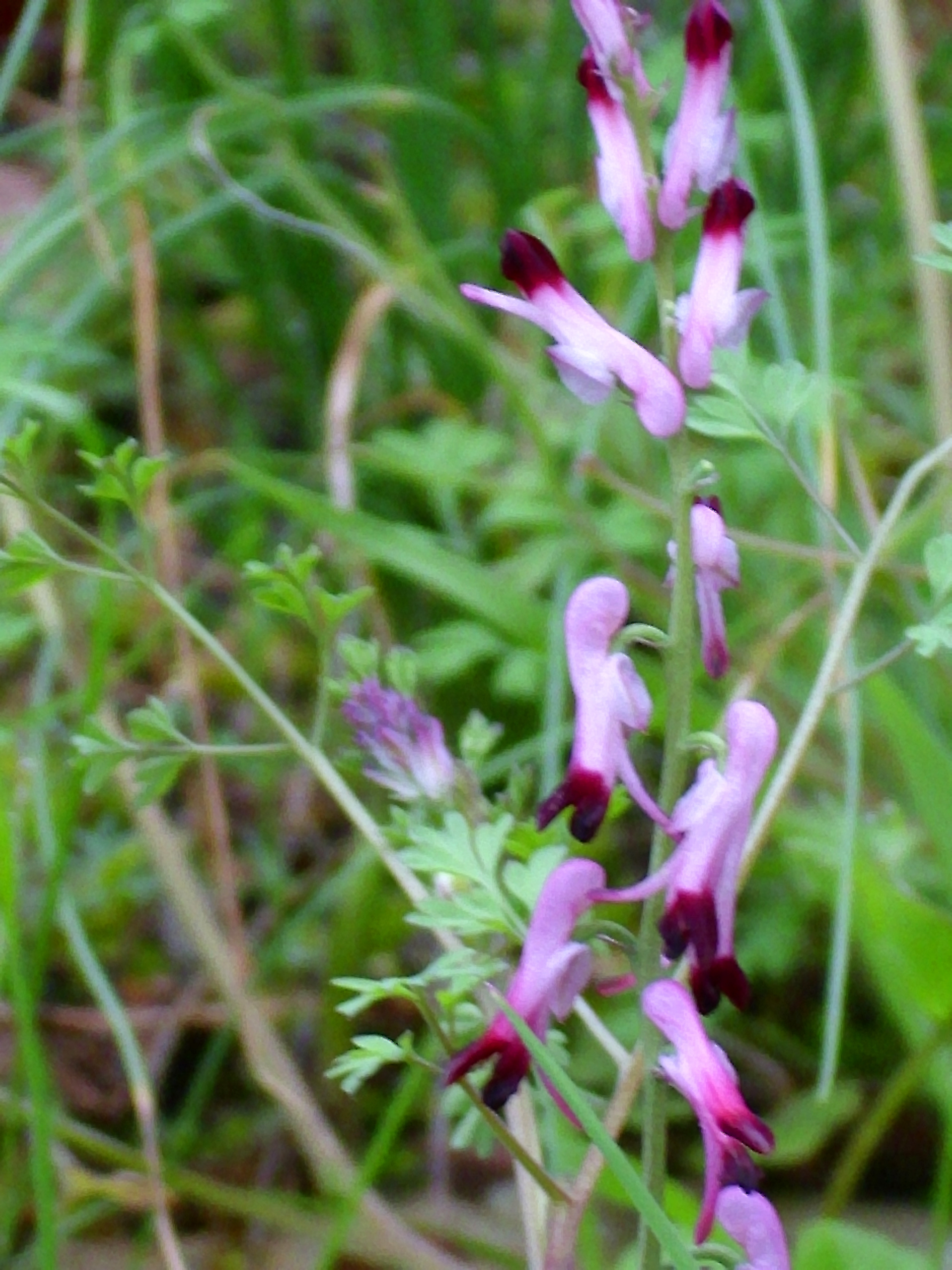 Fumaria reuteri flowers close up, Sierra Madrona, Spain